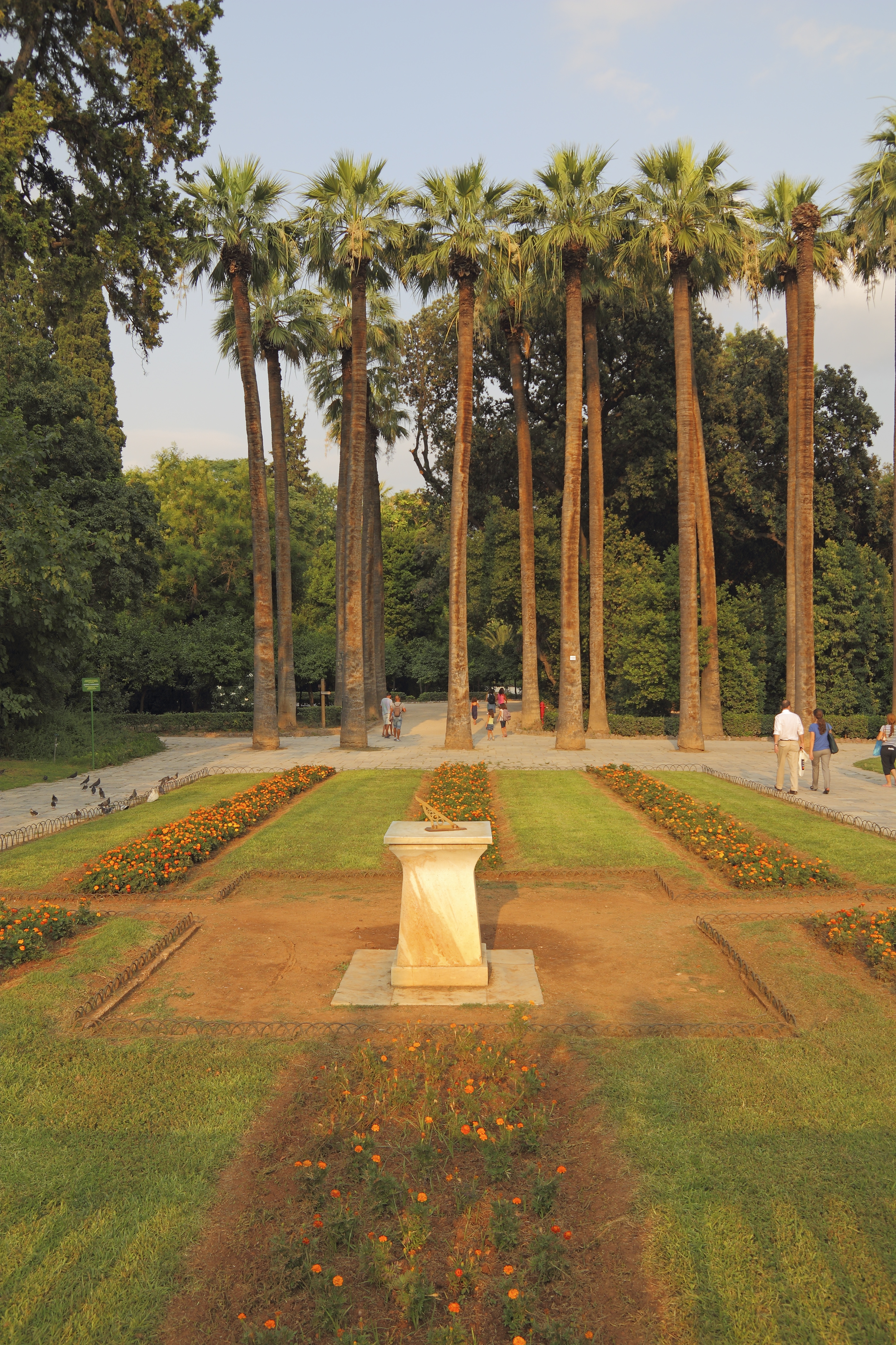 National Garden in Athens (Attica, Greece)